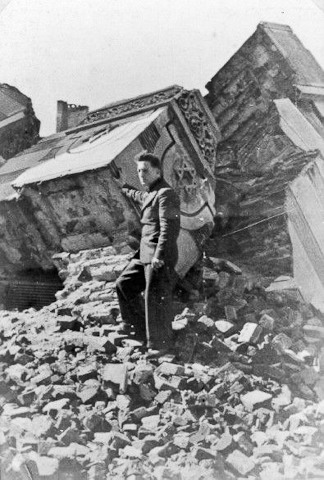 Photo of the Alte Szile synagogue in Lodz destroyed in 1939 by the nazis. Photo taken by Mendel Grossman (1913-1945)